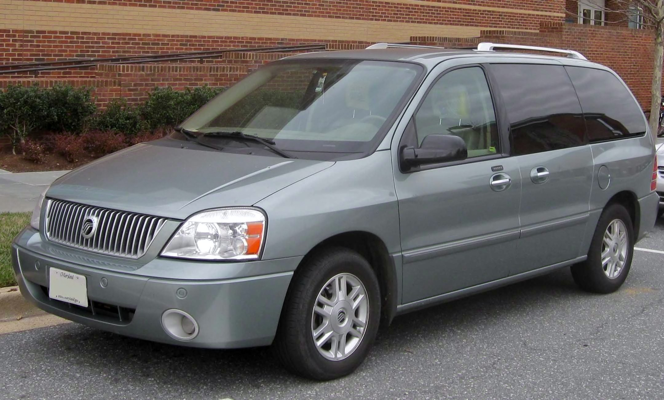 Mercury Monterey photographed in College Park, Maryland, USA.